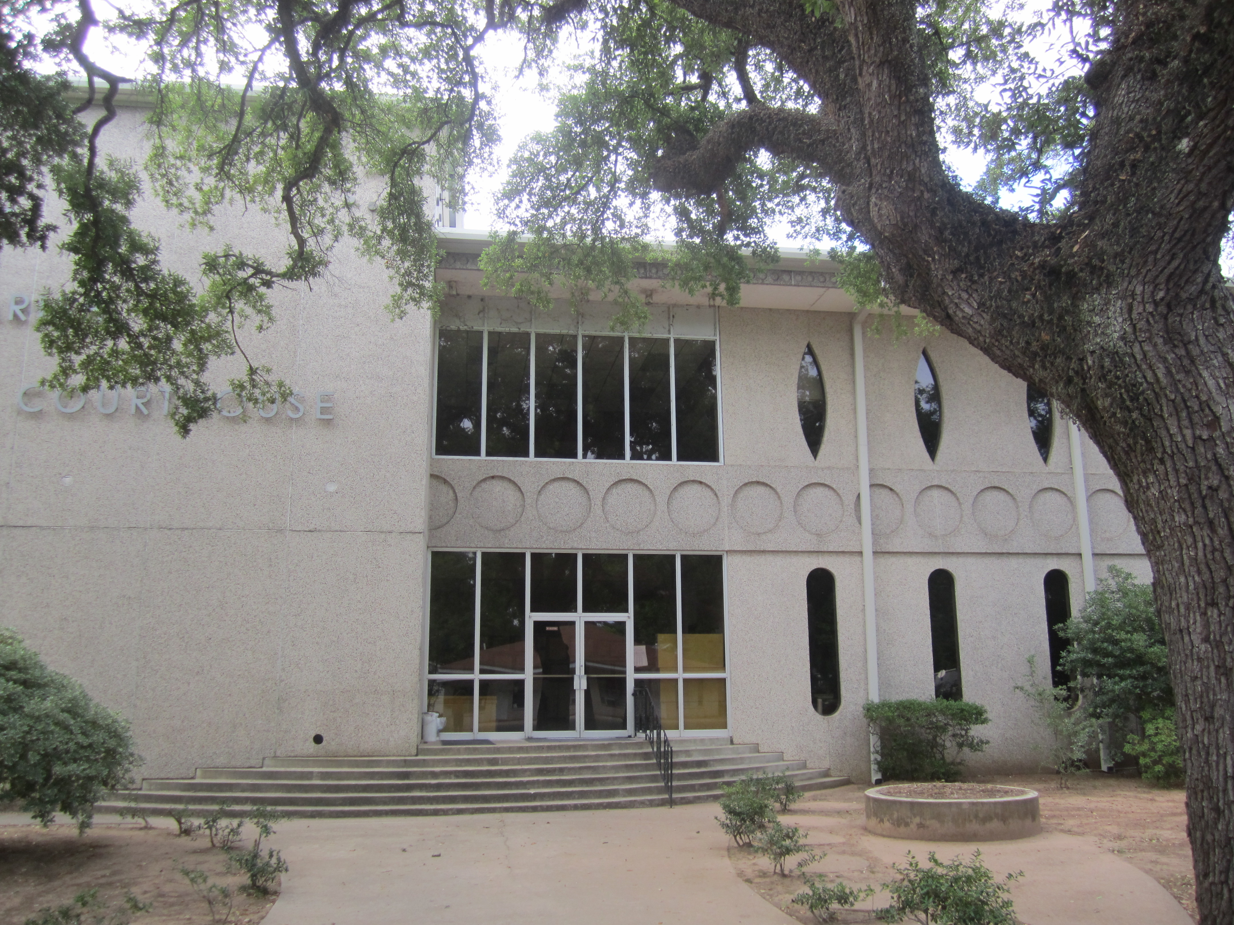 I took photo in Colfax, LA, of Grant Parish Courthouse, which is shielded by a large tree. I used a Canon camera.